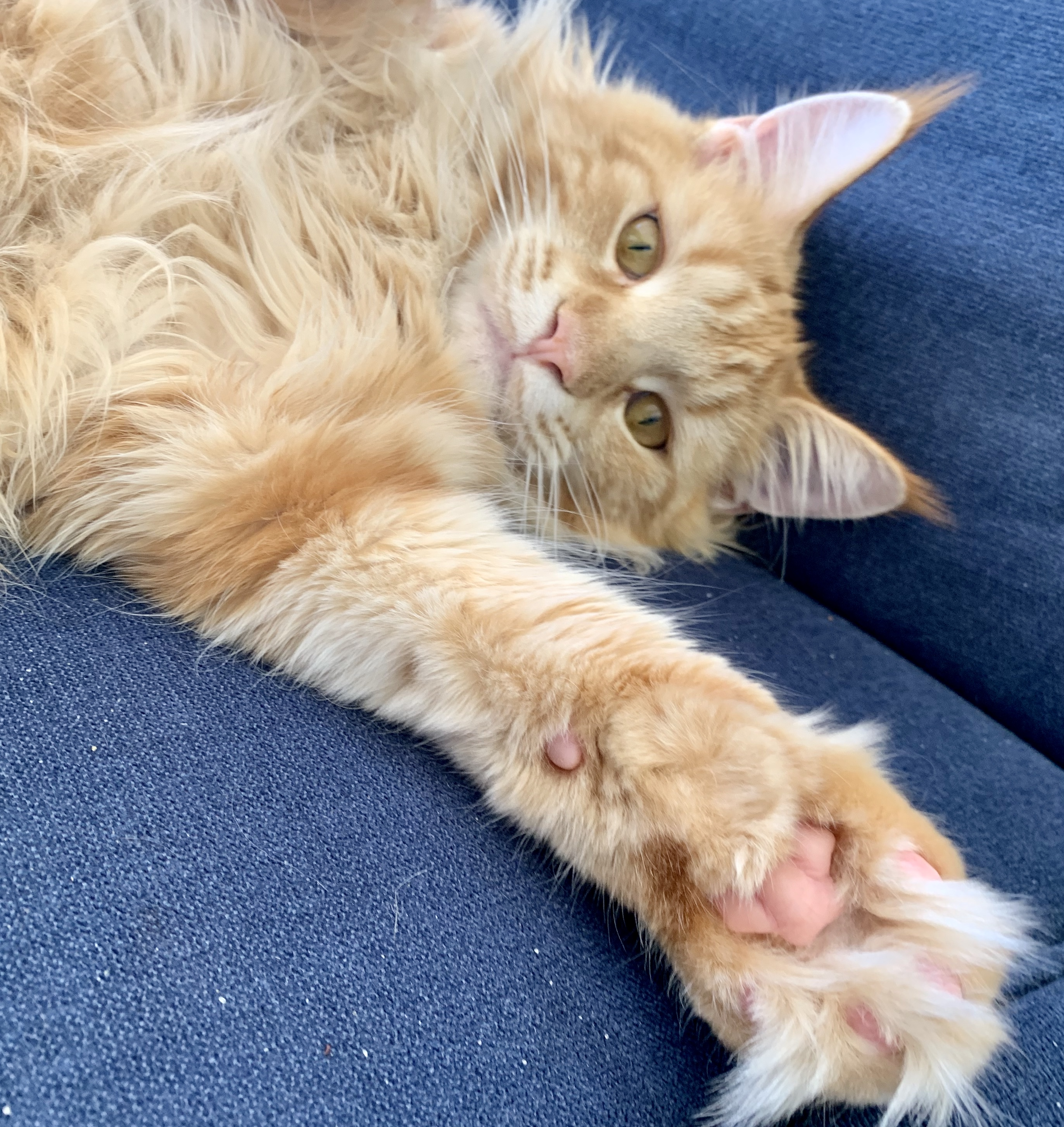 Maine Coon exhibiting polydactylism.